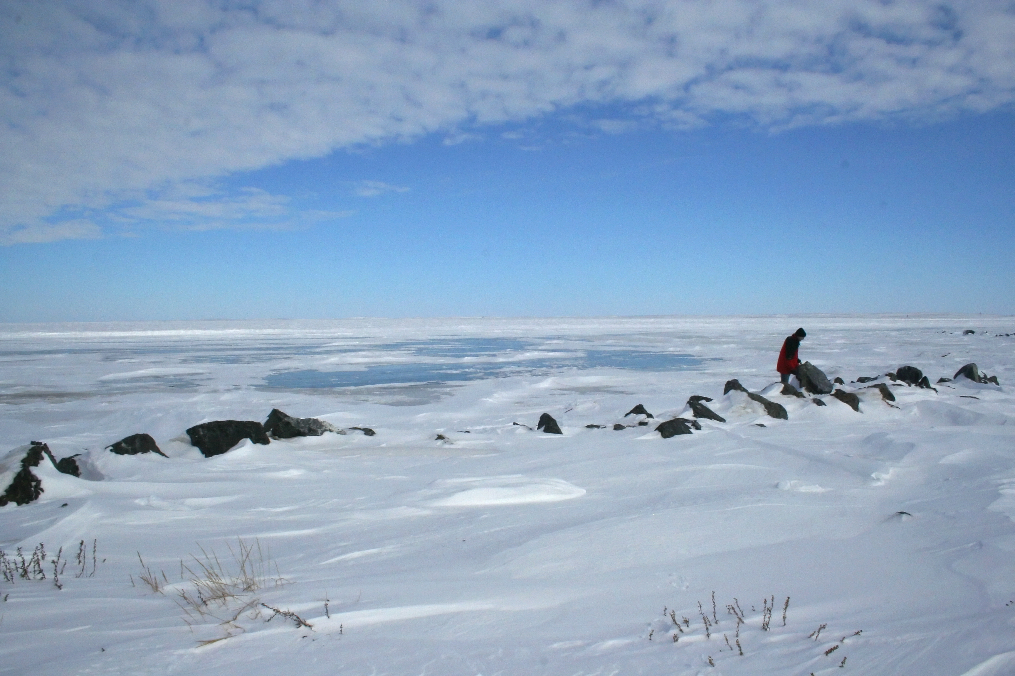 Tuktoyuktuk Beach on the Arctic Ocean